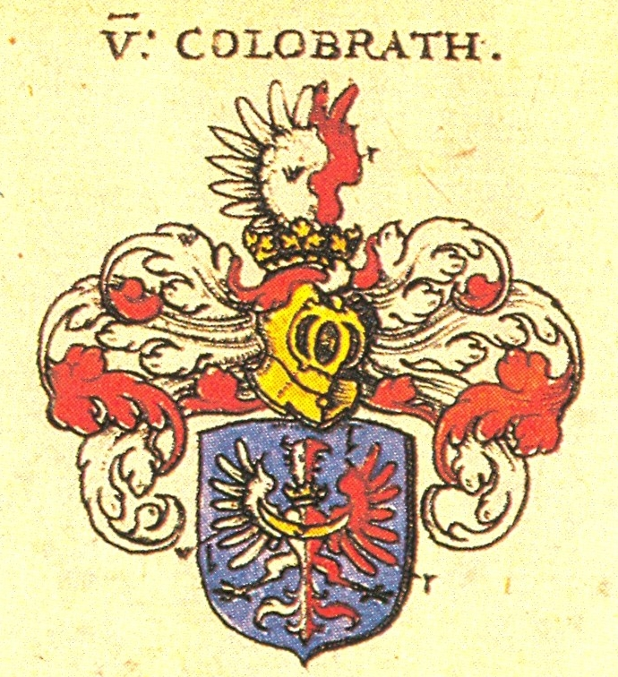 Coat of arms of Kolowrat